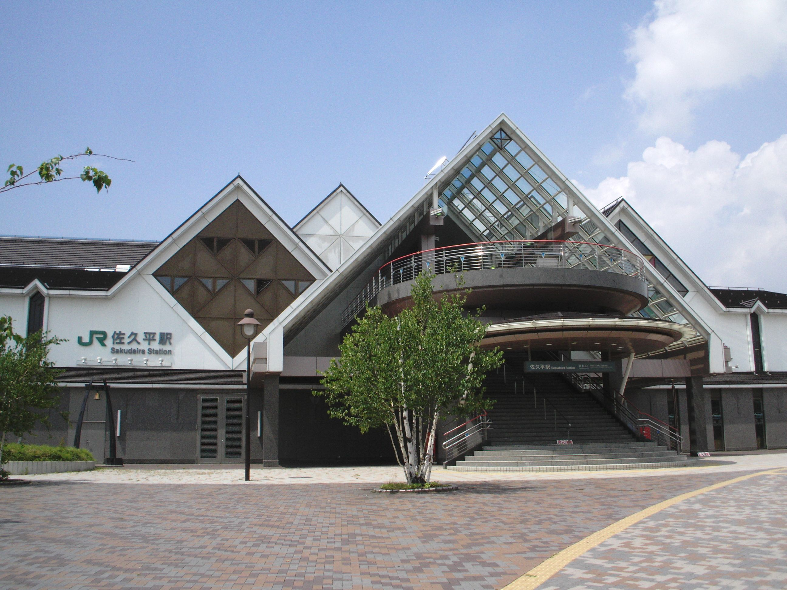 Sakudaira Station Tateshina Entrance